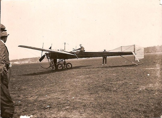 Photo believed to have been taken at Brooklands in the summer of 1911.